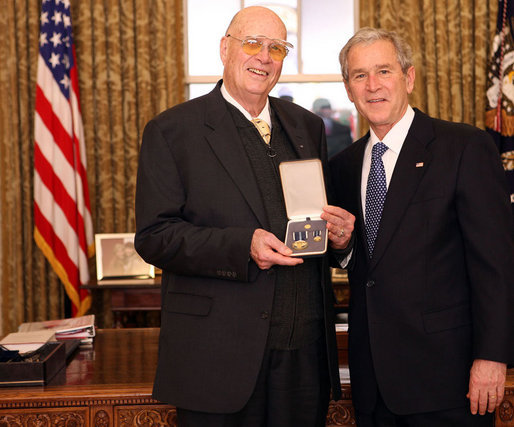 President George W. Bush stands with Forrest M. Bird after presenting him with the 2008 Presidential Citizens Medal Wednesday, Dec. 10, 2008, in the Oval Office of the White House.